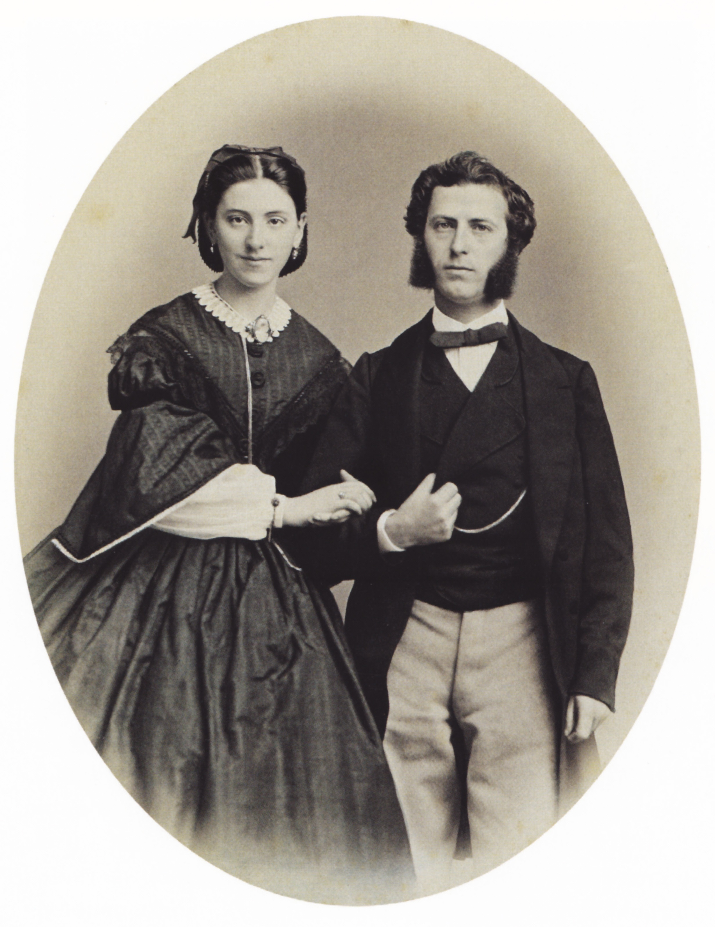 Pauline Jacobson (1845-1912) and Heinrich Hirschsprung (1836-1908) were married in the Synagogue of Copenhagen, June 26, 1864. This is their wedding photo.